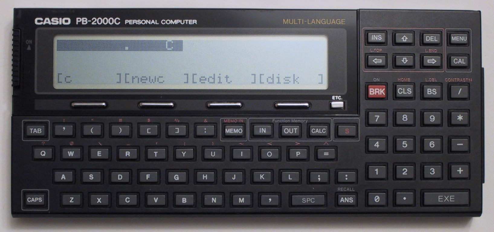 Pocket microcomputer Casio PB-2000C programmable in the C language.